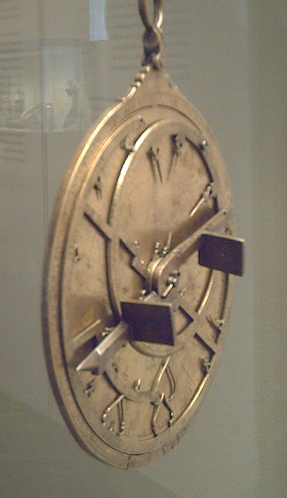 Planispheric astrolabe from Al-Andalus (Islamic Iberia).